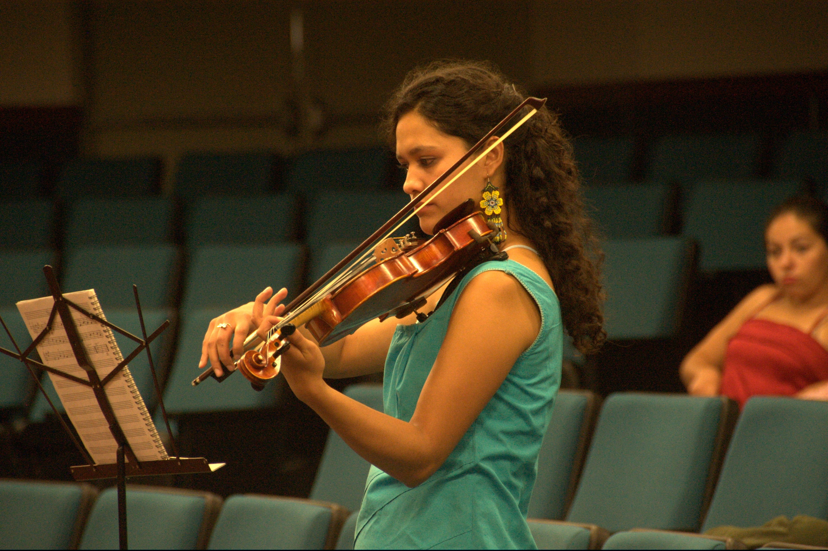 Tania Torres Magallanes leading a violin workshop at ITESM- Campus Ciudad de México